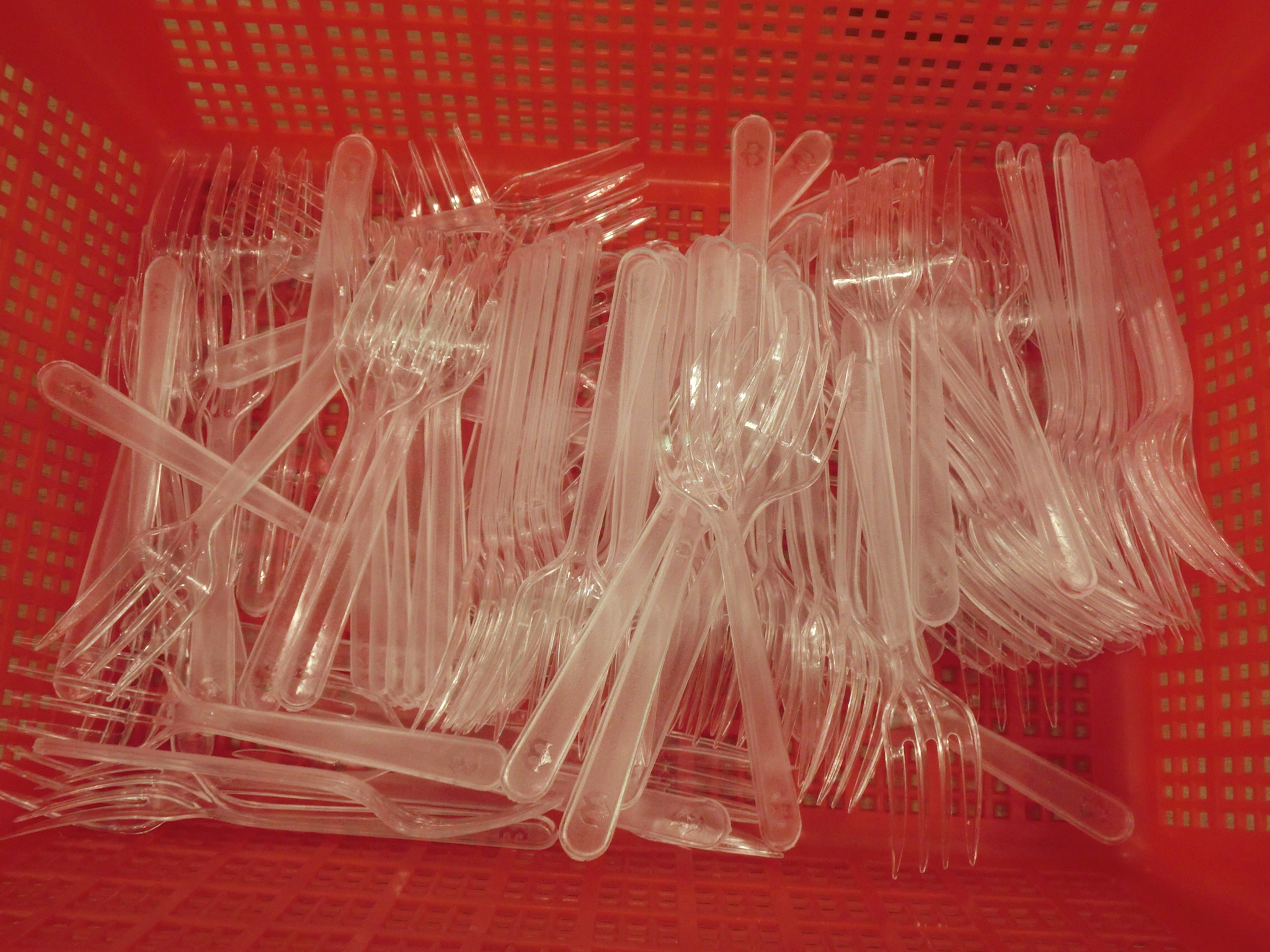 聖馬利亞堂, Social gethering in St. Mary's Church, Tung Lo Wan Road, Hong Kong